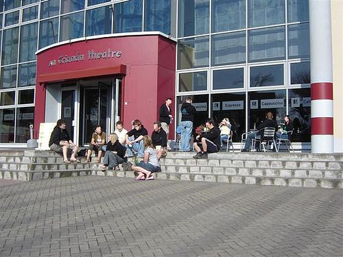 my own photo